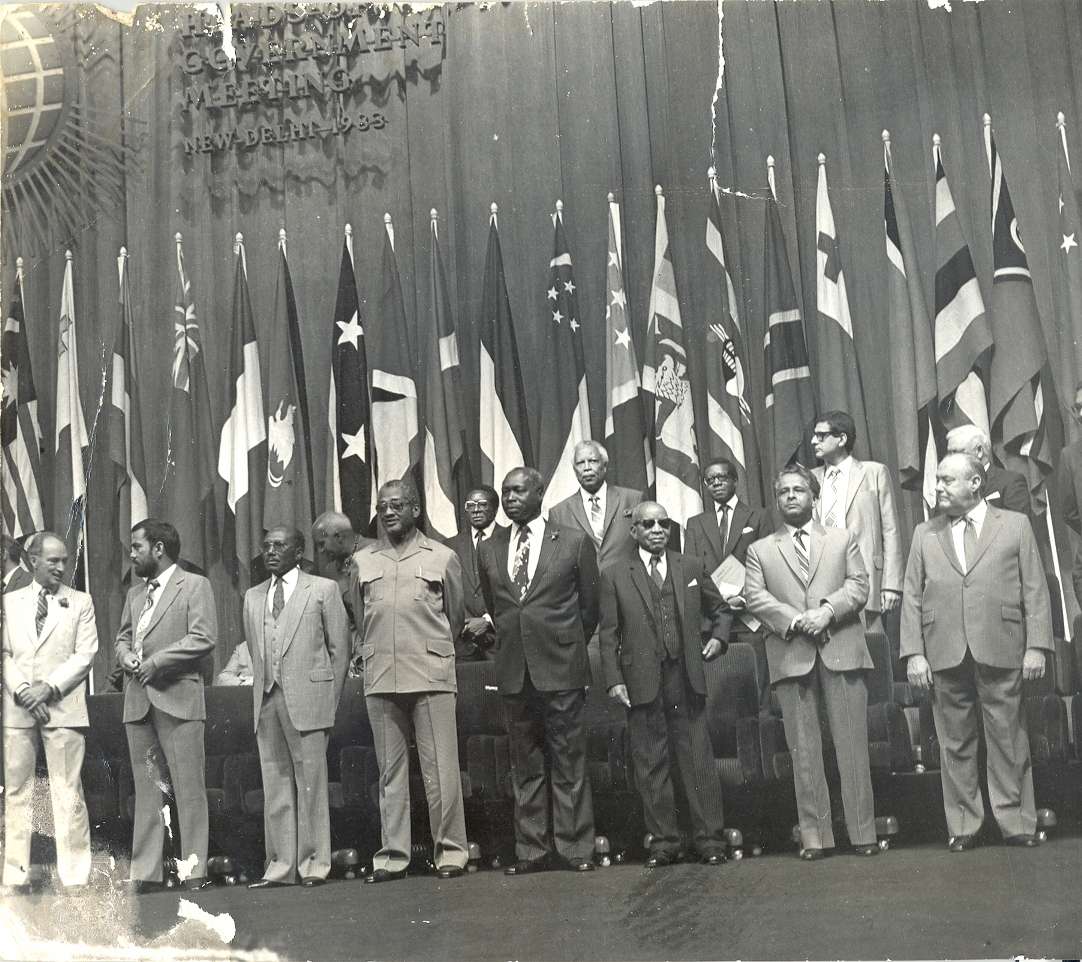 Dr Banda attending the Commonwealth Heads of Government Conference in New Dheli, November 1983